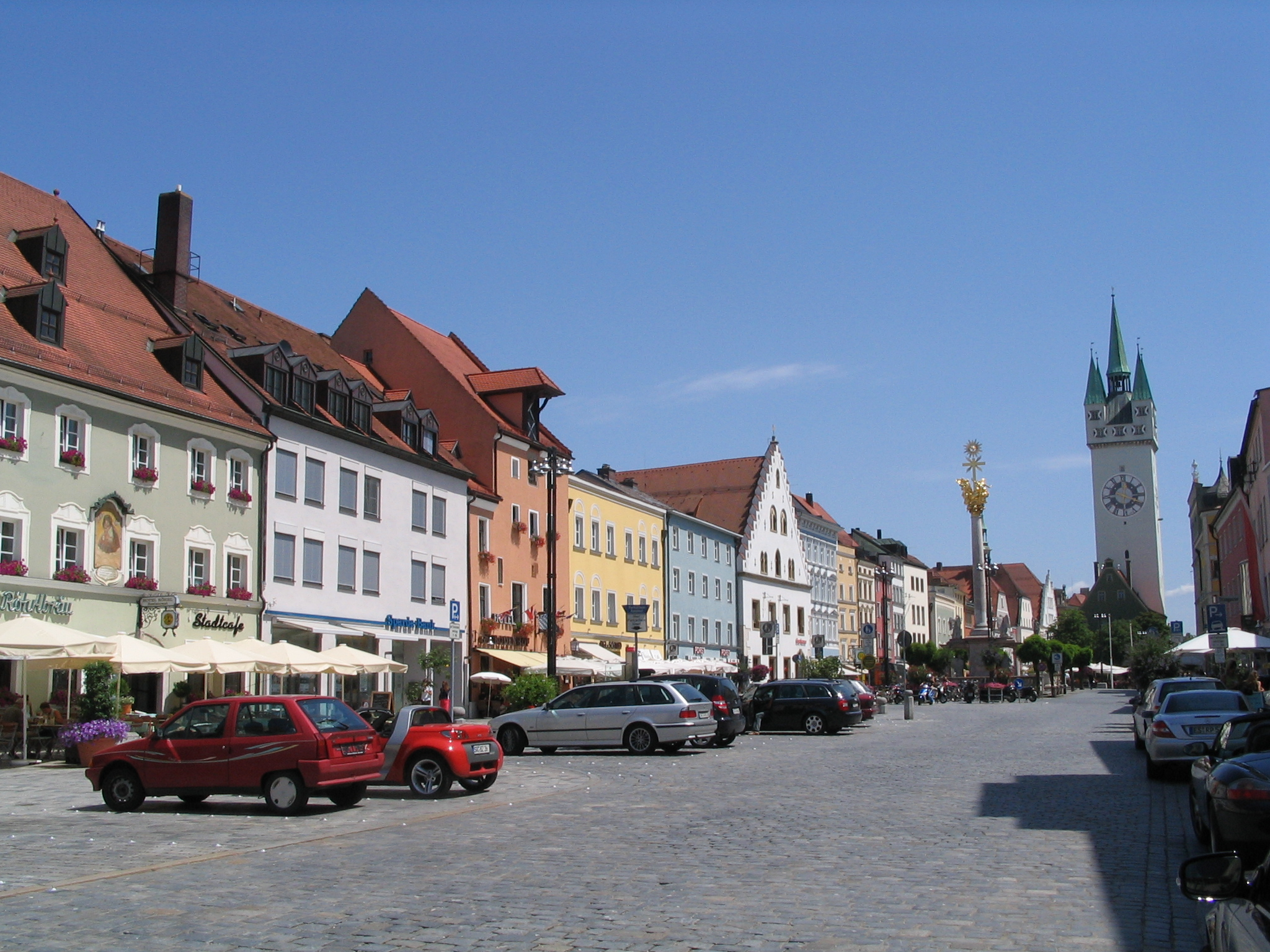 Market place (Theresienplatz) in Straubing, Germany